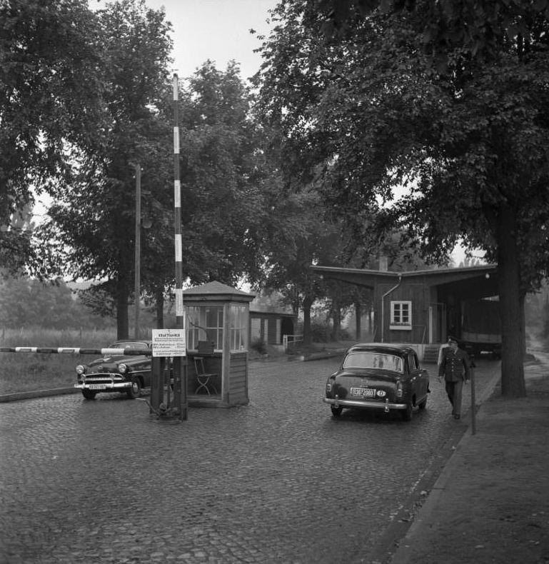 Border crossing Heerstrasse in Berlin-Spandau (Staaken). An Opel vehicle heading east to West Berlin and a Mercedes vehicle heading west.